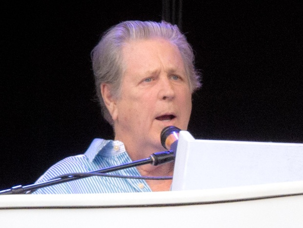 Brian Wilson on piano with the Beach Boys in Santa Barbara Bowl. Cropped from File:Beach Boys reunion 2012 I.jpg